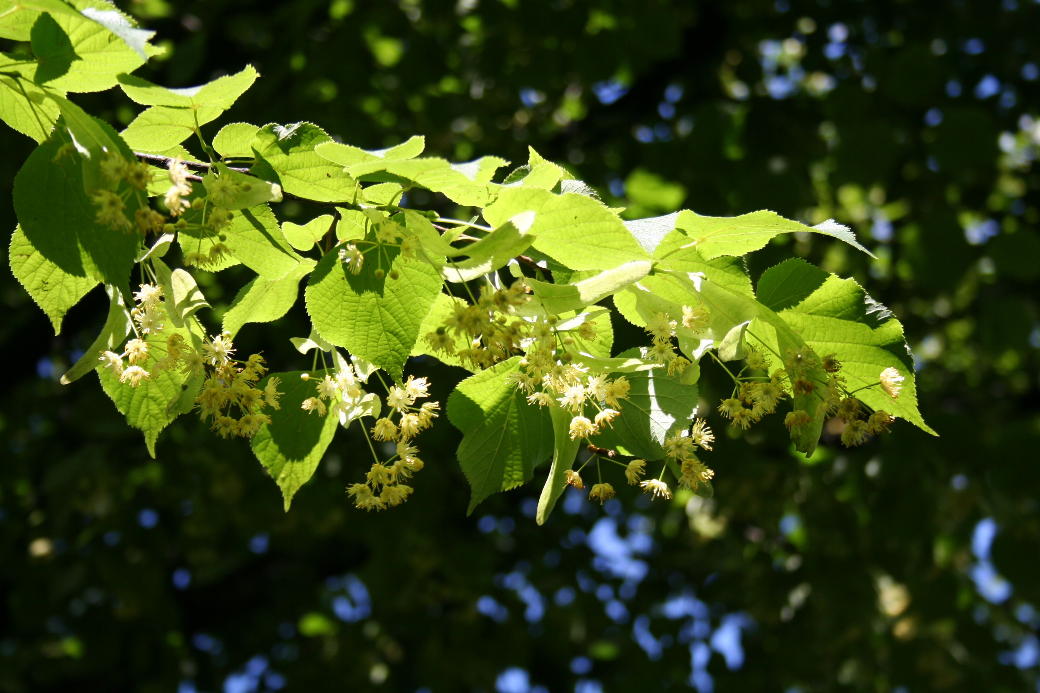 leaves and flowers of lime tree (tilia cordata) in Hofgarten, Munich.